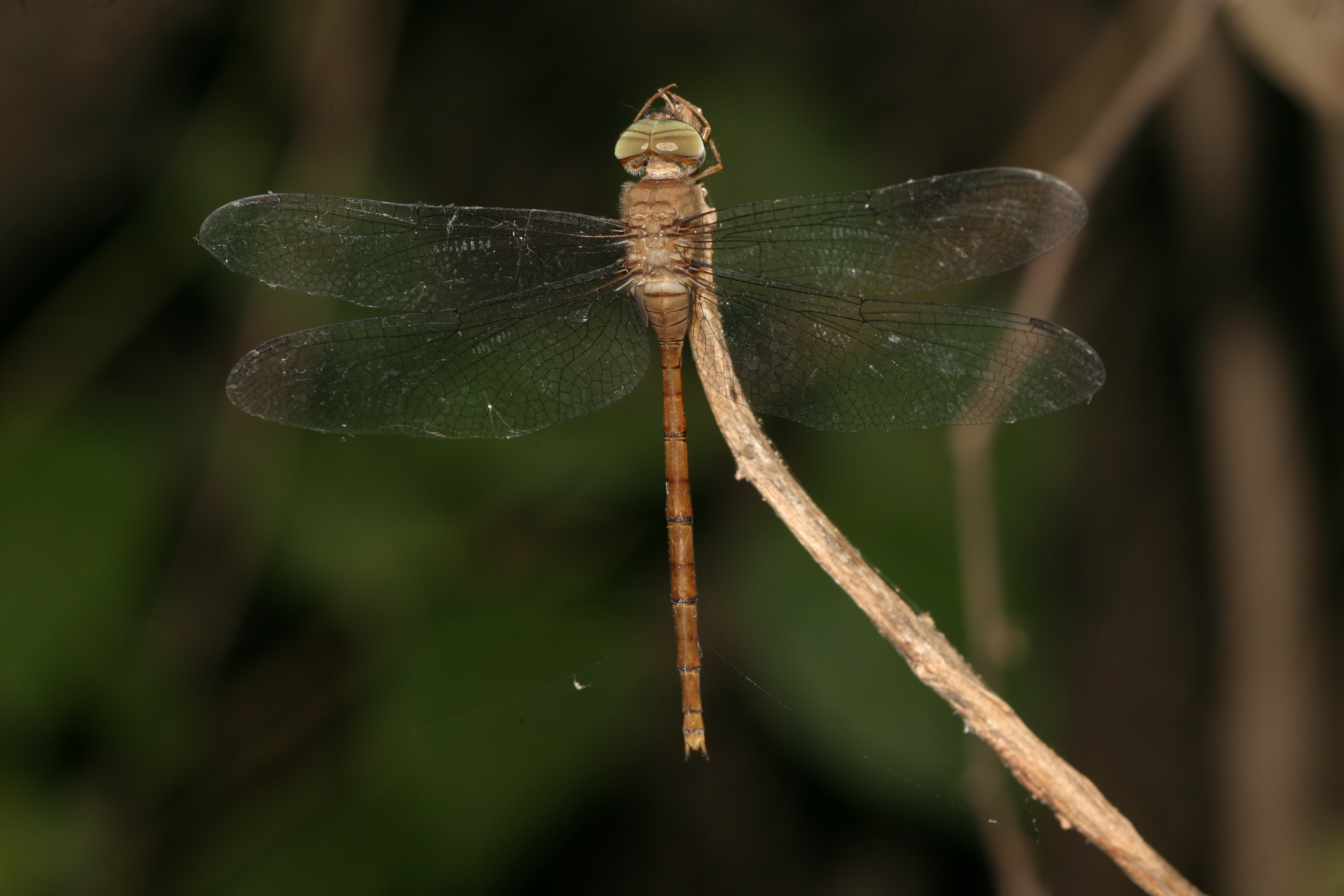 Zyxomma petiolatum from India.